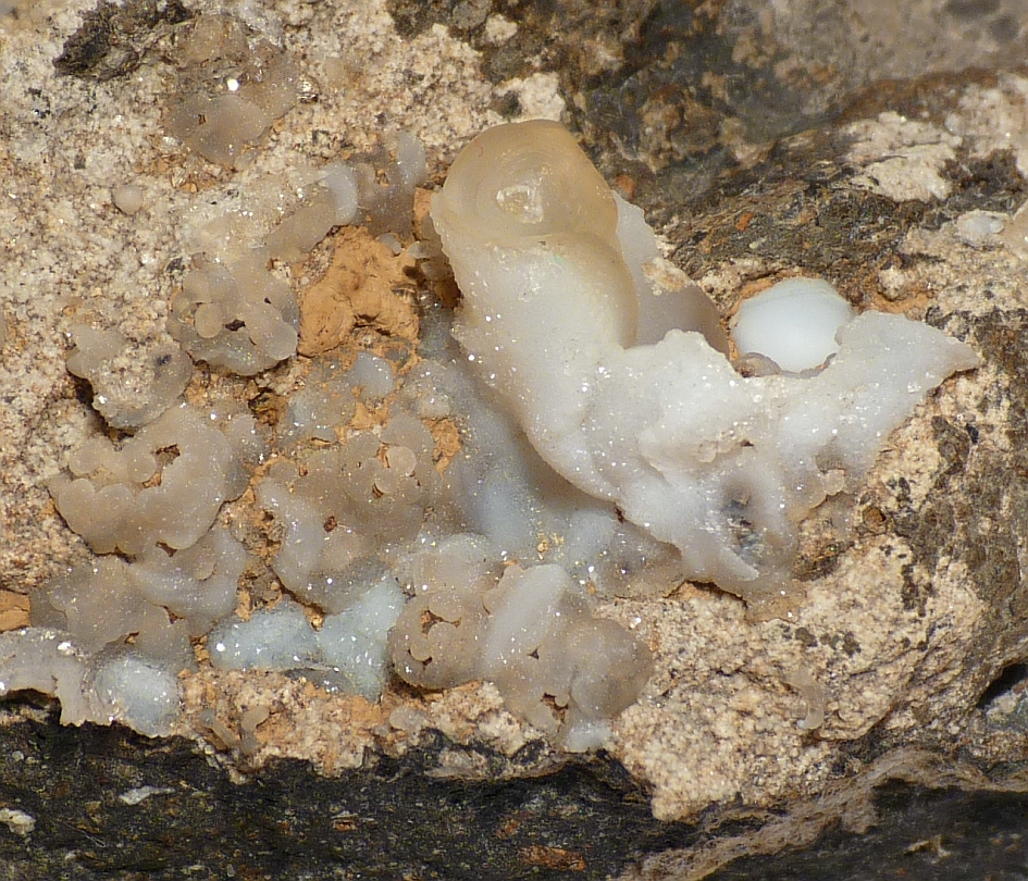 Cristobalite Locality: Sarliève, Cournon-d'Auvergne, Clermont-Ferrand, Puy-de-Dôme, Auvergne, France Field of view 3 cm